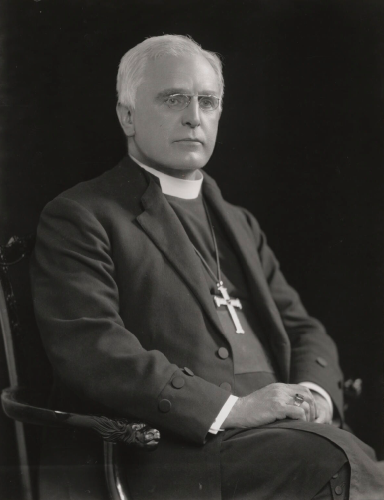 Henry Mosley (1868-1948), Bishop of Stepney and Bishop of Southwell. This photograph was taken in the year of his ordination as Bishop of Southwell. It was published by Lafayette Ltd., photographers. All attempts have been made to find the individual photographer online and in libraries, but to no avail.